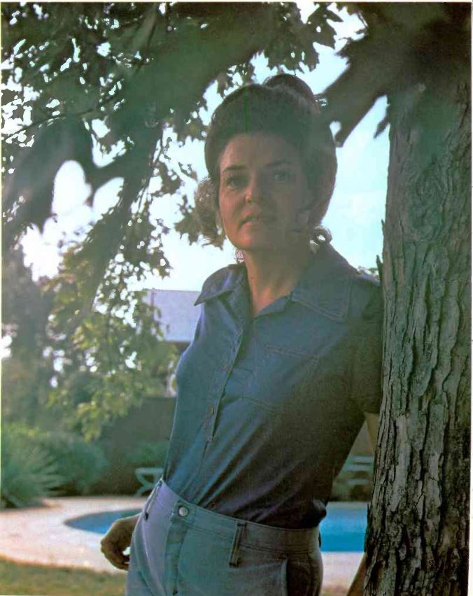 Jeanne Pruett in the Grand Ole Opry's magazine, 1974